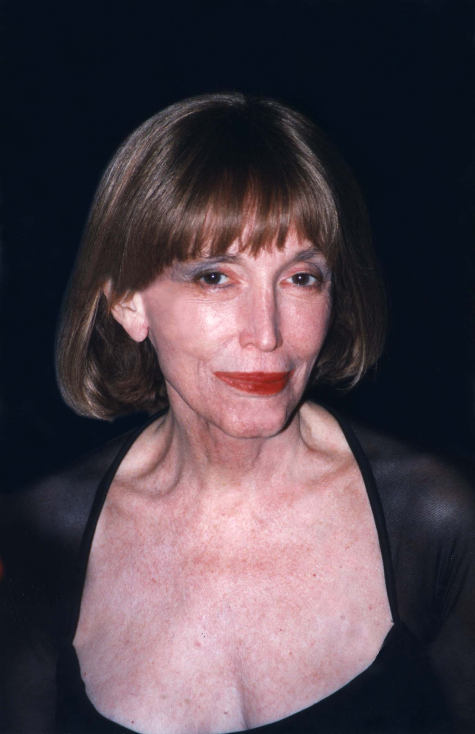 Helen Gurley Brown.Head of Cosmopolitan magazine.Kennedy center.Washington D.C. 1996 . © copyright John Mathew Smith 2001